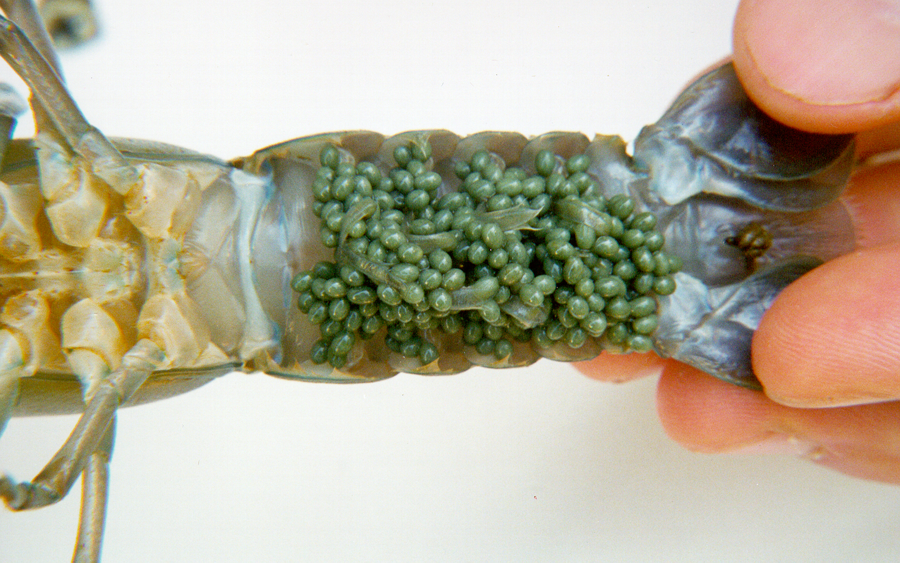 Week-old yabby (Cherax destructor) eggs, 2-3mm, attached by minute hairs to underside of female abdomen